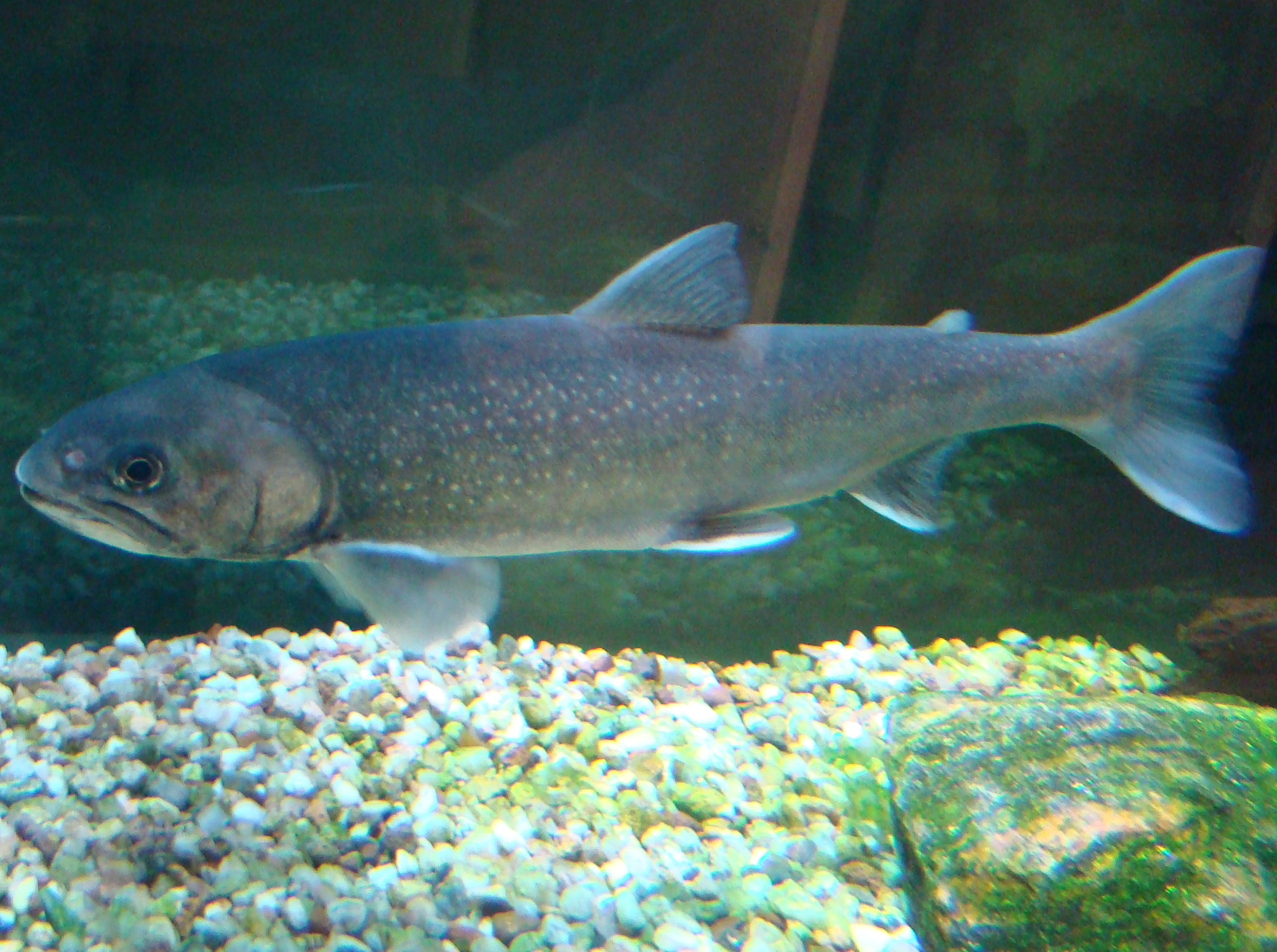 Arctic char in the Arctikum museum, in Rovaniemi, Finland.